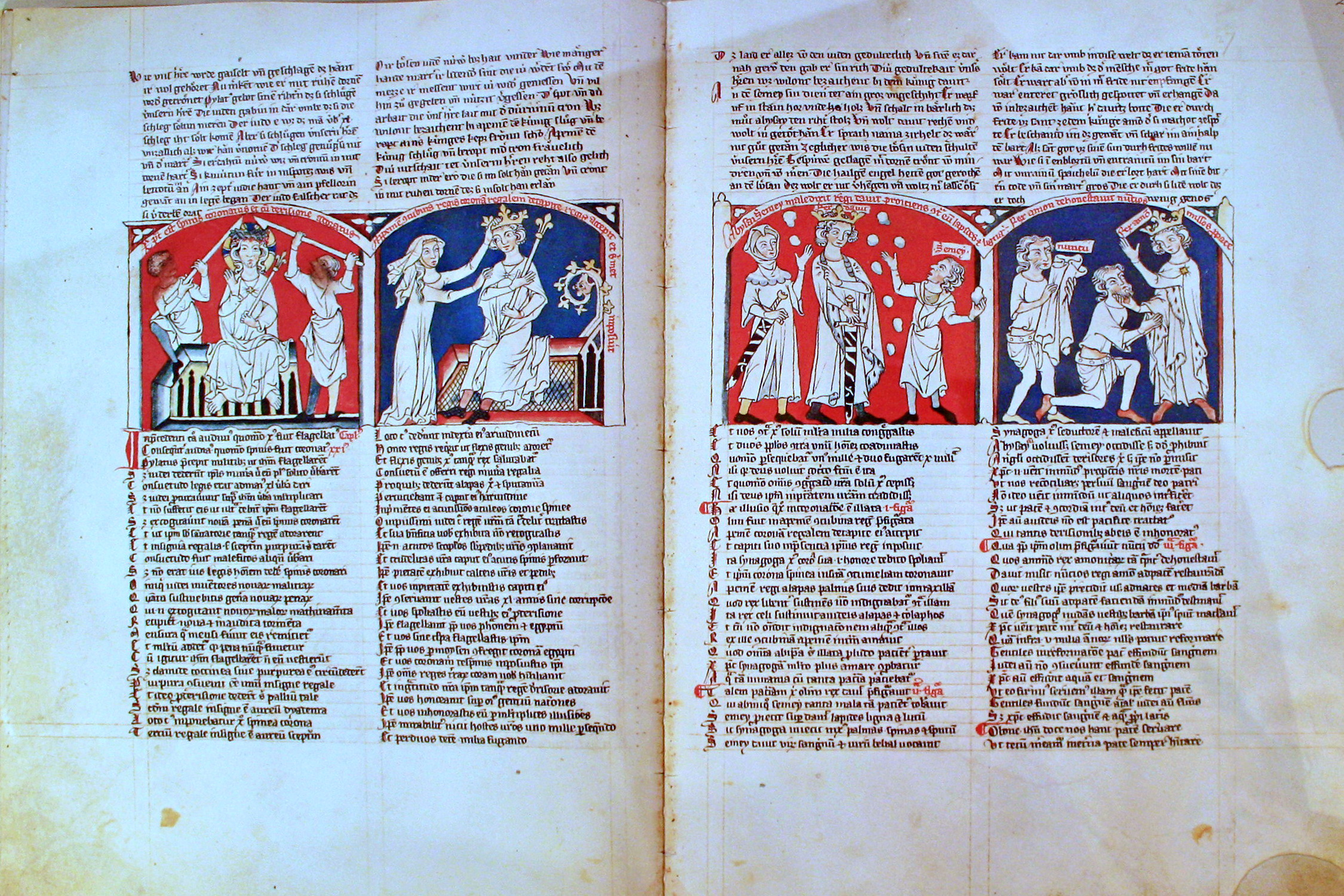 1972 facsimile edition of the Codex Cremifanensis 243 (Speculum Humanae Vitae, until 1525 in Rüti Abbey, later in Weißenau Abbey), as exhibited at the Ortsmuseum (museum of local history) in the Amthaus Rüti (Bailiff's house).